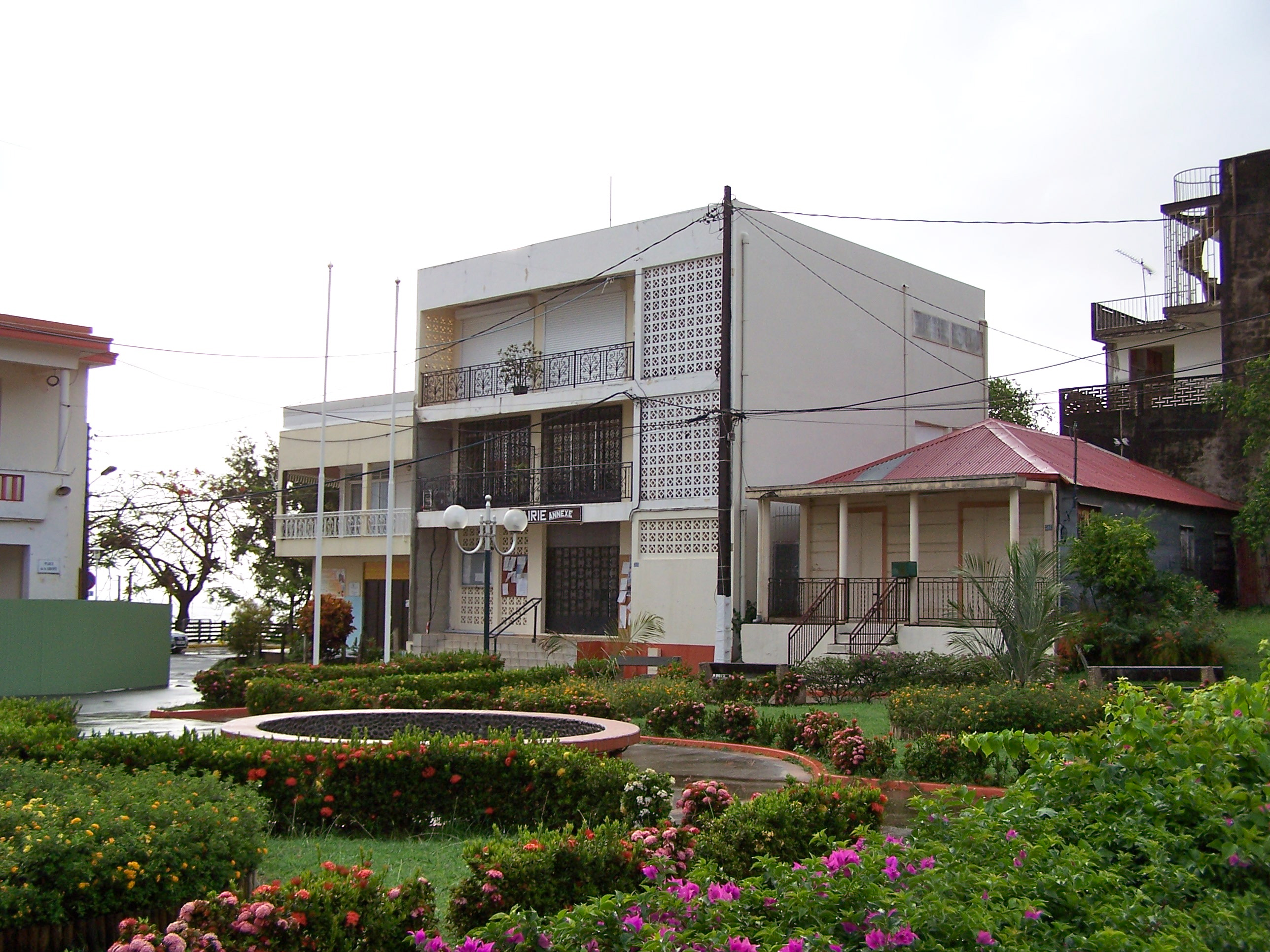 Nouvelle mairie de Pointe-Noire et place centrale